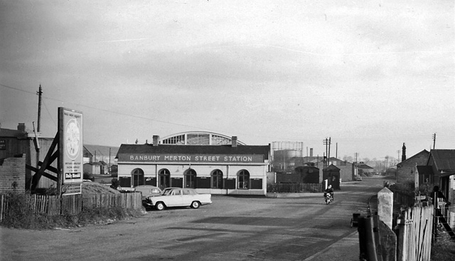 Banbury Merton Street railway station. View southward of entrance of station. Terminus of branch lines from Blisworth via Towcester (closed 2/7/51 - Goods 29/10/51) and from Bletchley via Verney Junction and Buckingham (closed from Buckingham 2/1/61 - Goods 6/6/66). Hence the apparent survival of the structure when photographed about 10 weeks after it last saw passengers.